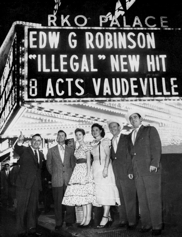 Photo of (from left) Theater manager, Roy Acuff, Ruby Wright, Kitty Wells, Johnnie Wright and Jack Anglin as they played the RKO Palace (Now the Palace Theatre on Broadway) in 1955. Ruby Wright is the daughter of Kitty Wells and Johnnie Wright.